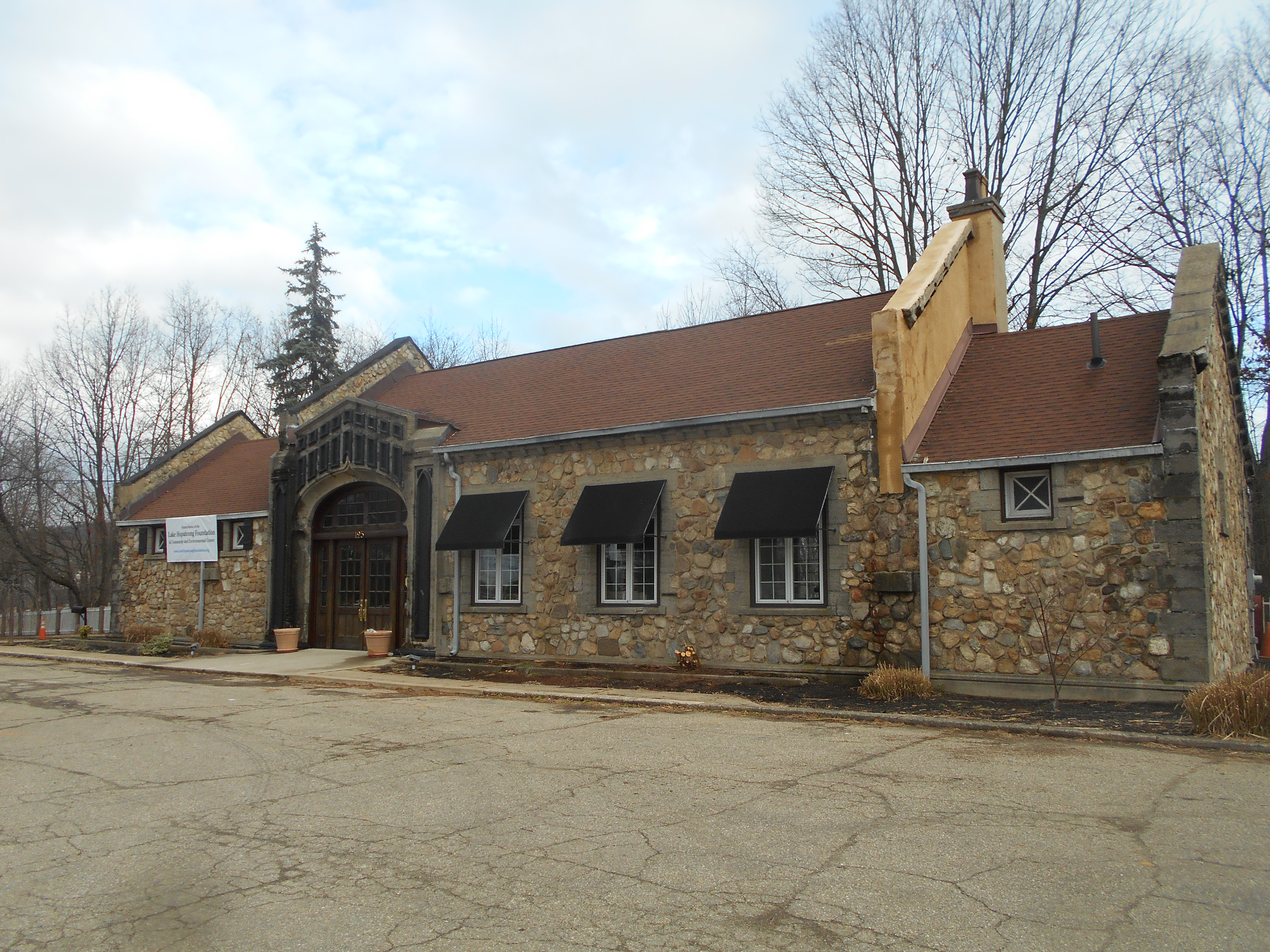 The station depot at the Lake Hopatcong station for New Jersey Transit in Landing, New Jersey in December 2014.